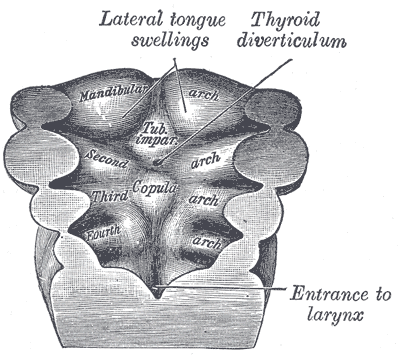 Floor of pharynx of human embryo about twenty-six days old. (From model by Peters.)